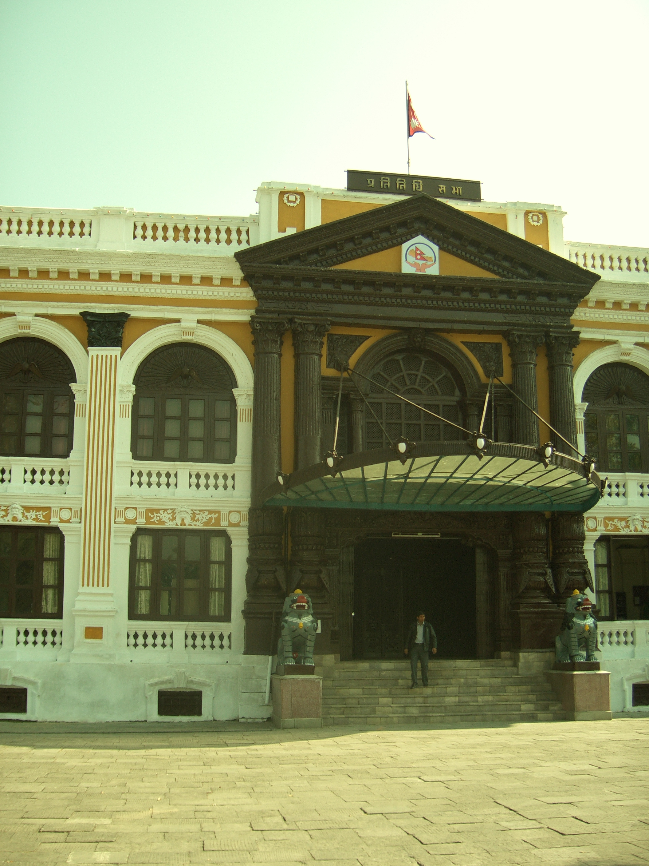 Photo: Soman